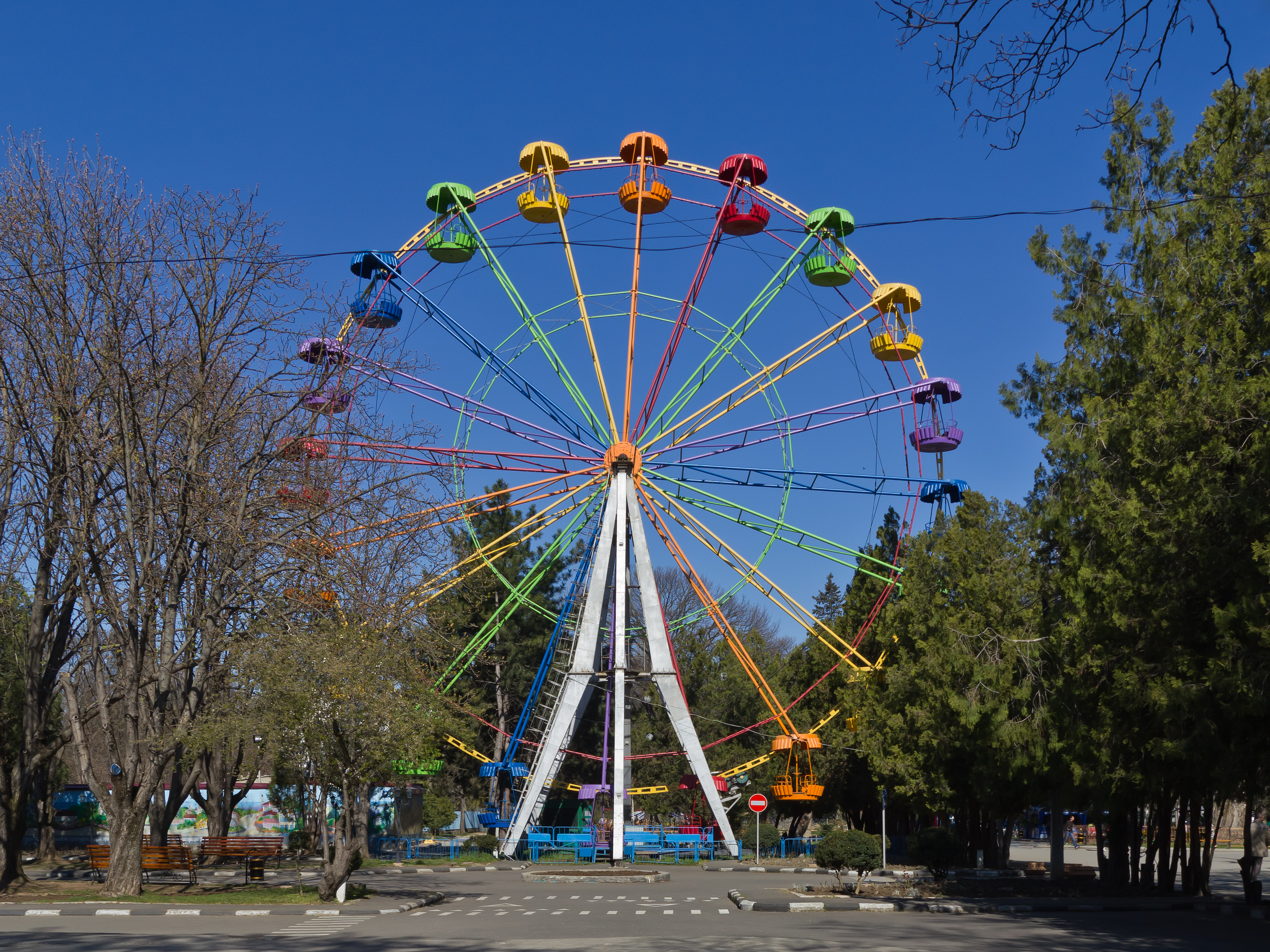 Ferris wheel in the Children's Park of Simferopol, Crimean Peninsula.